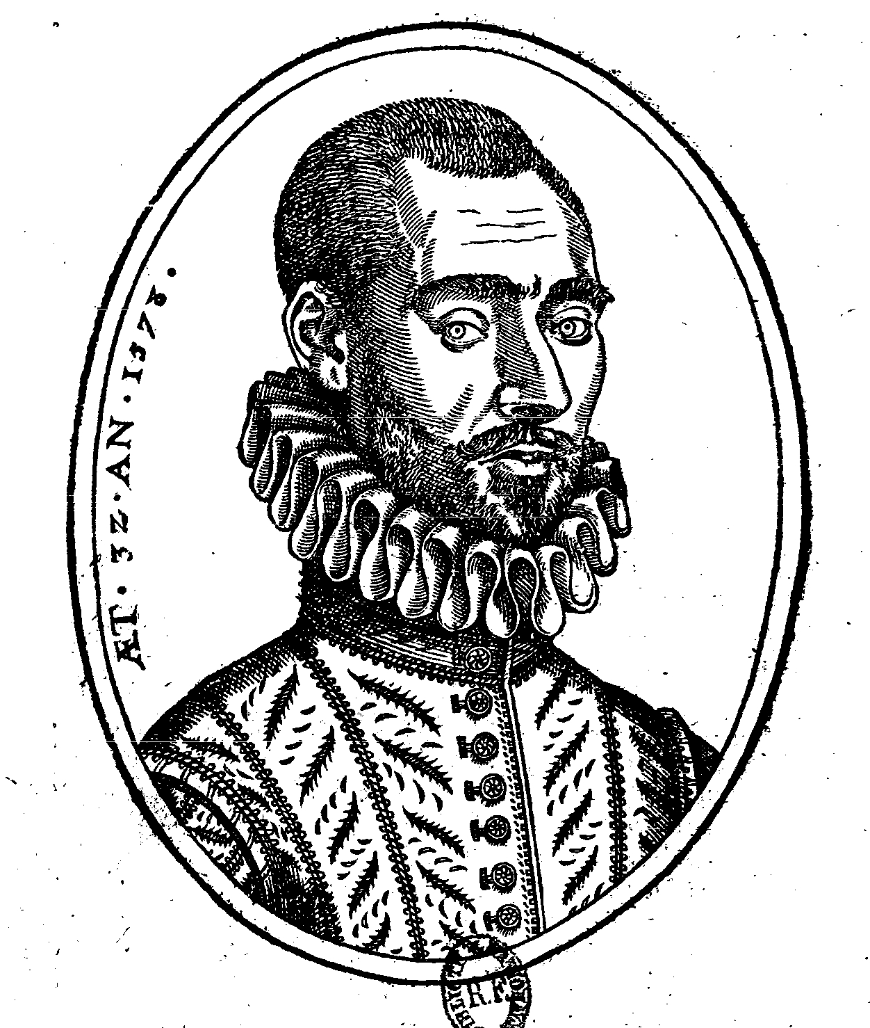 Wood engraving of French writer Pierre de La Primaudaye (1546 - ca 1619) from his book of quatrains Quatrains du vray heur (1589)